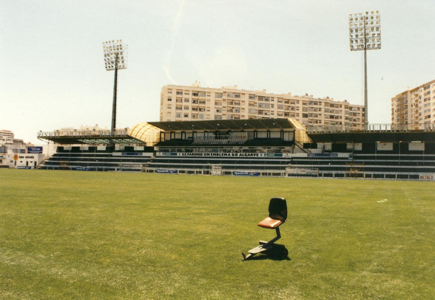 Inside the Estádio de São Luís from SC Farense